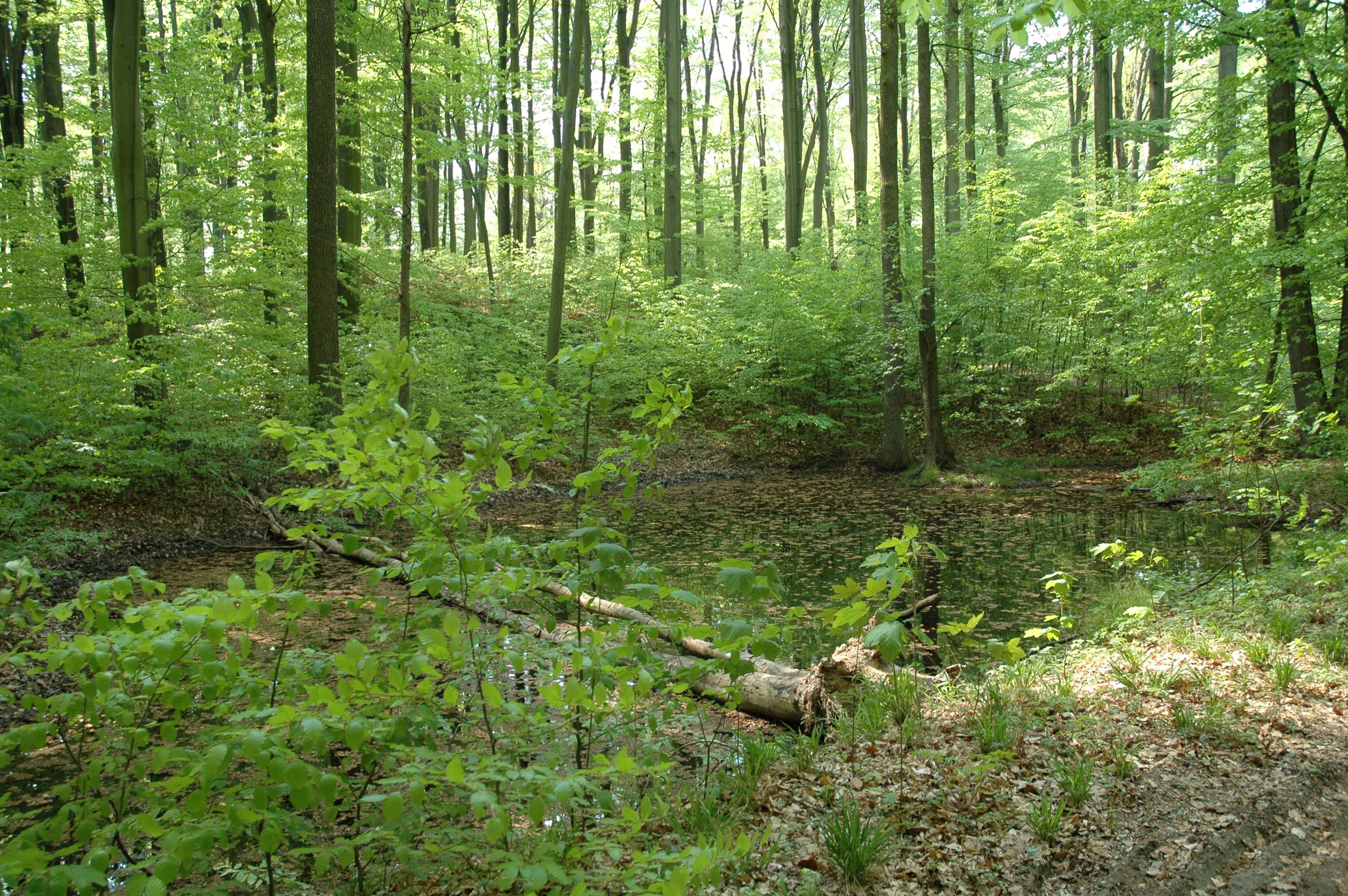 Poland - "Wzgórze Joanny" Nature Reserve, next to Milicz city.